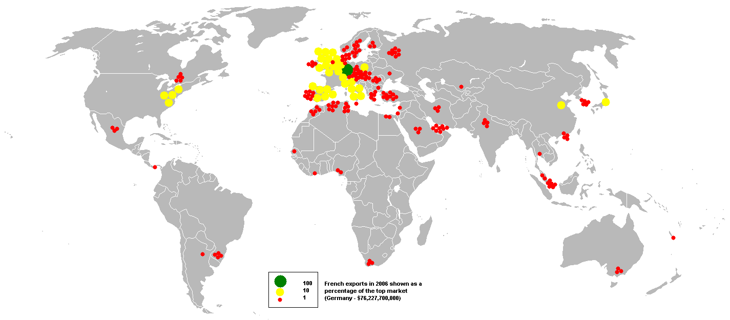 This bubble map shows the global distribution of French exports in 2006 as a percentage of the top market (Germany - $76,227,700,000). This map is consistent with incomplete set of data too as long as the top producer is known. It resolves the accessibility issues faced by colour-coded maps that may not be properly rendered in old computer screens. Data was extracted on 26th September 2007 from Based on :Image:BlankMap-World.png